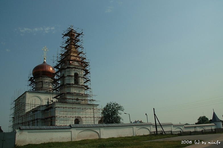 Russia. Tverskaya Oblast. Orshin Monastery